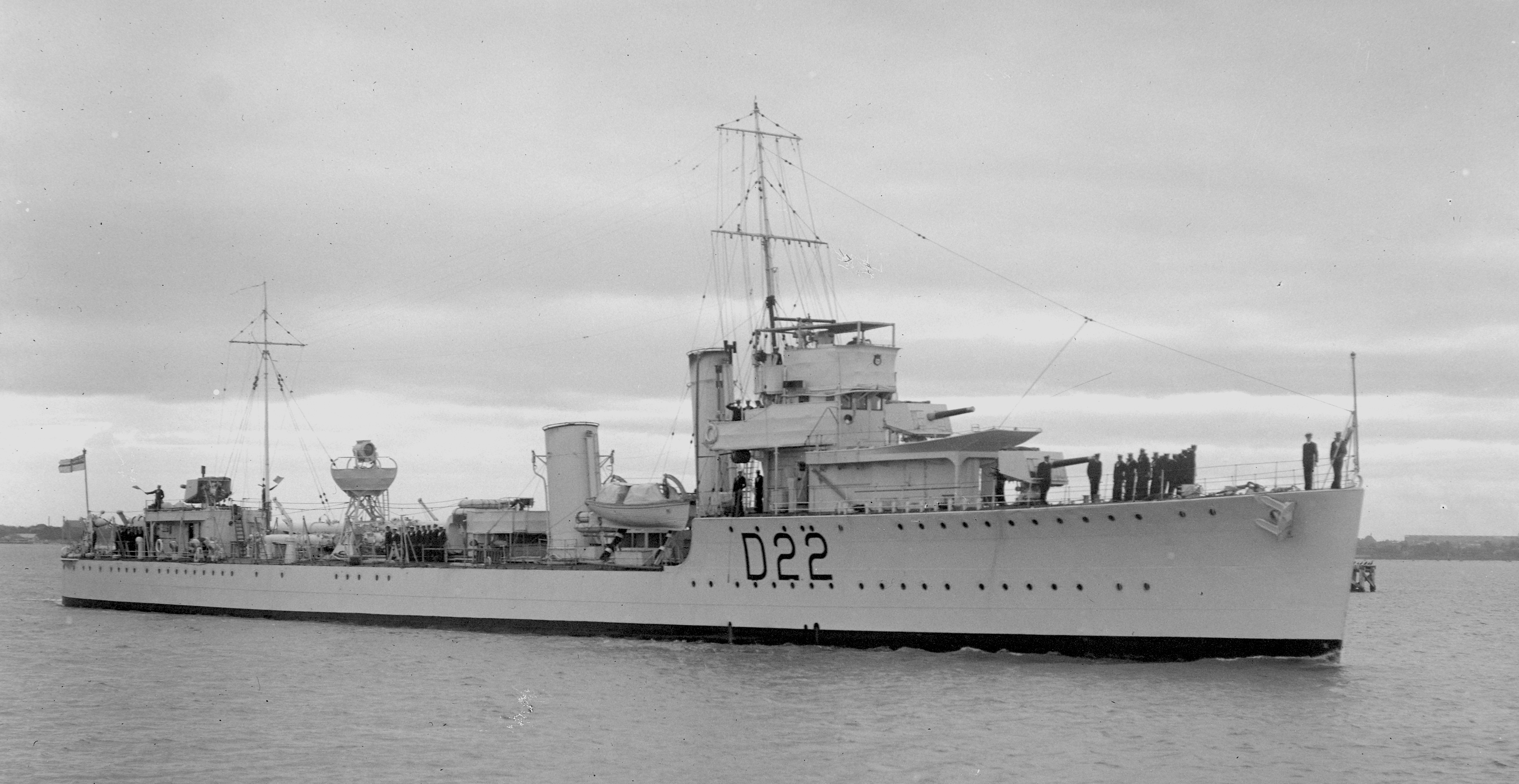 HMAS Waterhen